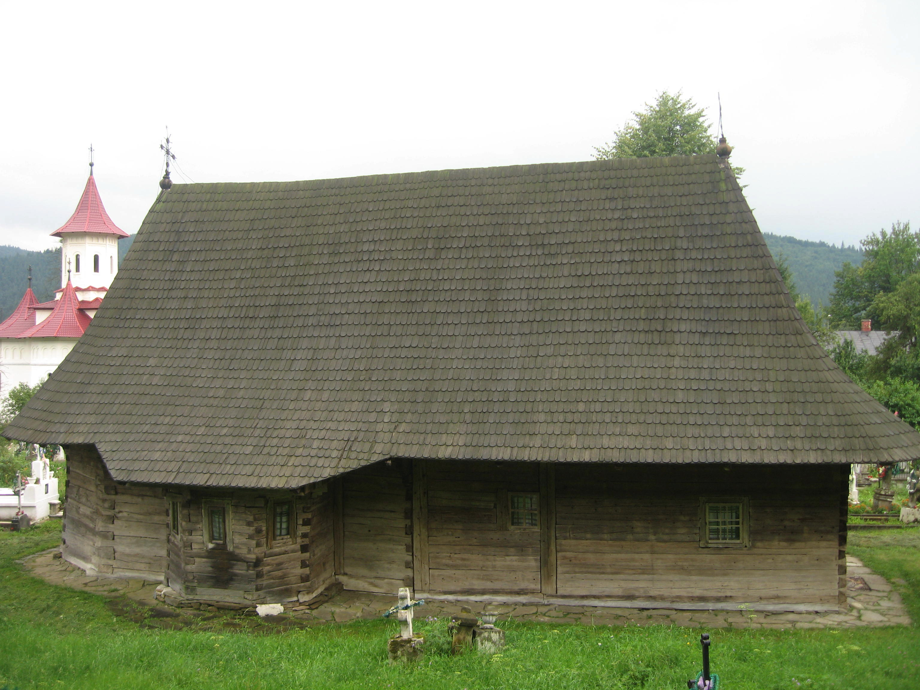 Wooden church of Putna